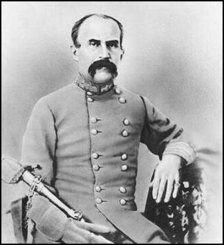 Isaac R. Trimble, 1860s photo